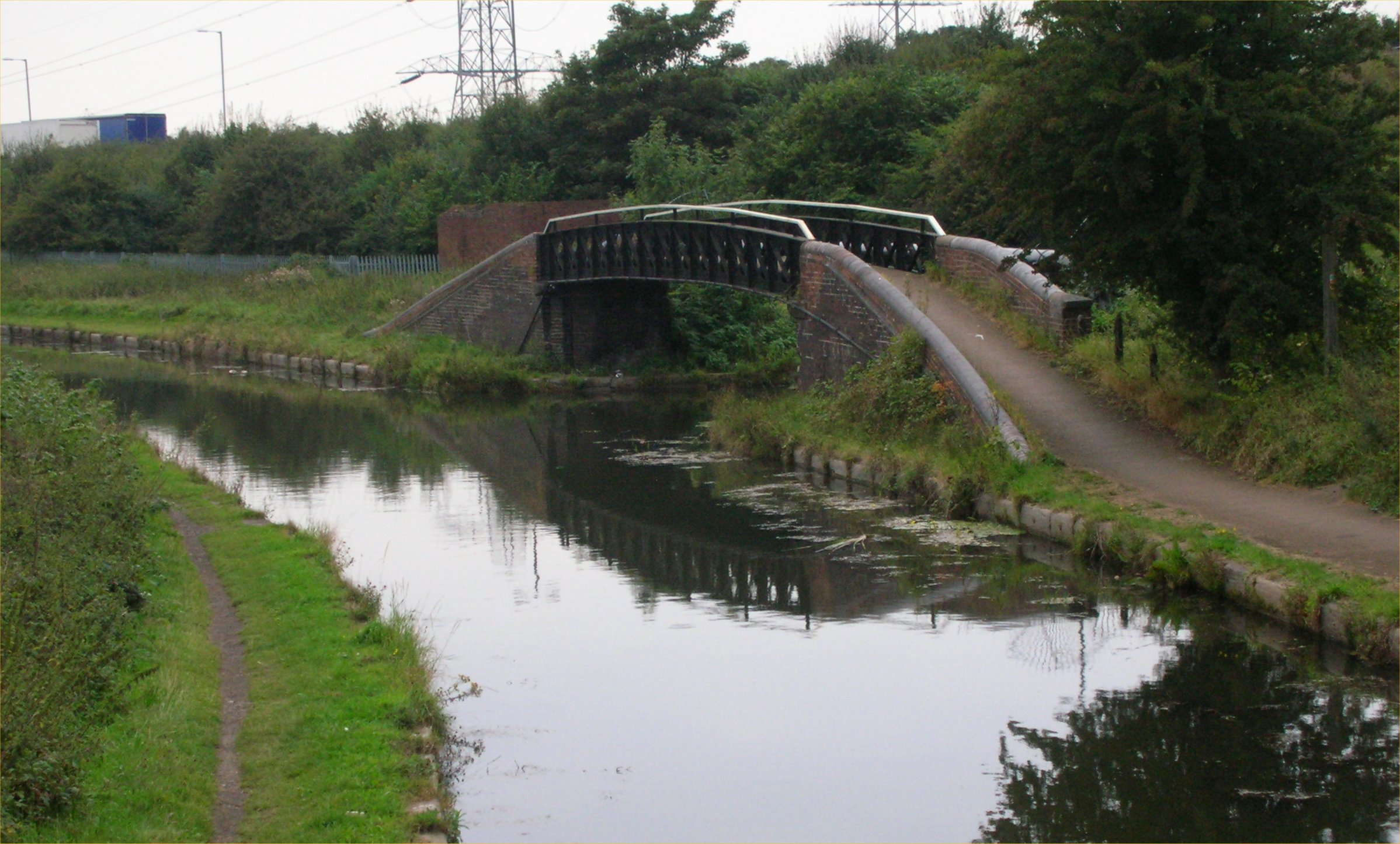 Rushall Junction, the southern terminus of the Rushall Canal in West Midlands (county), England. The main canal is the Tame Valley Canal. Photographed by me 13 September 2007. Oosoom